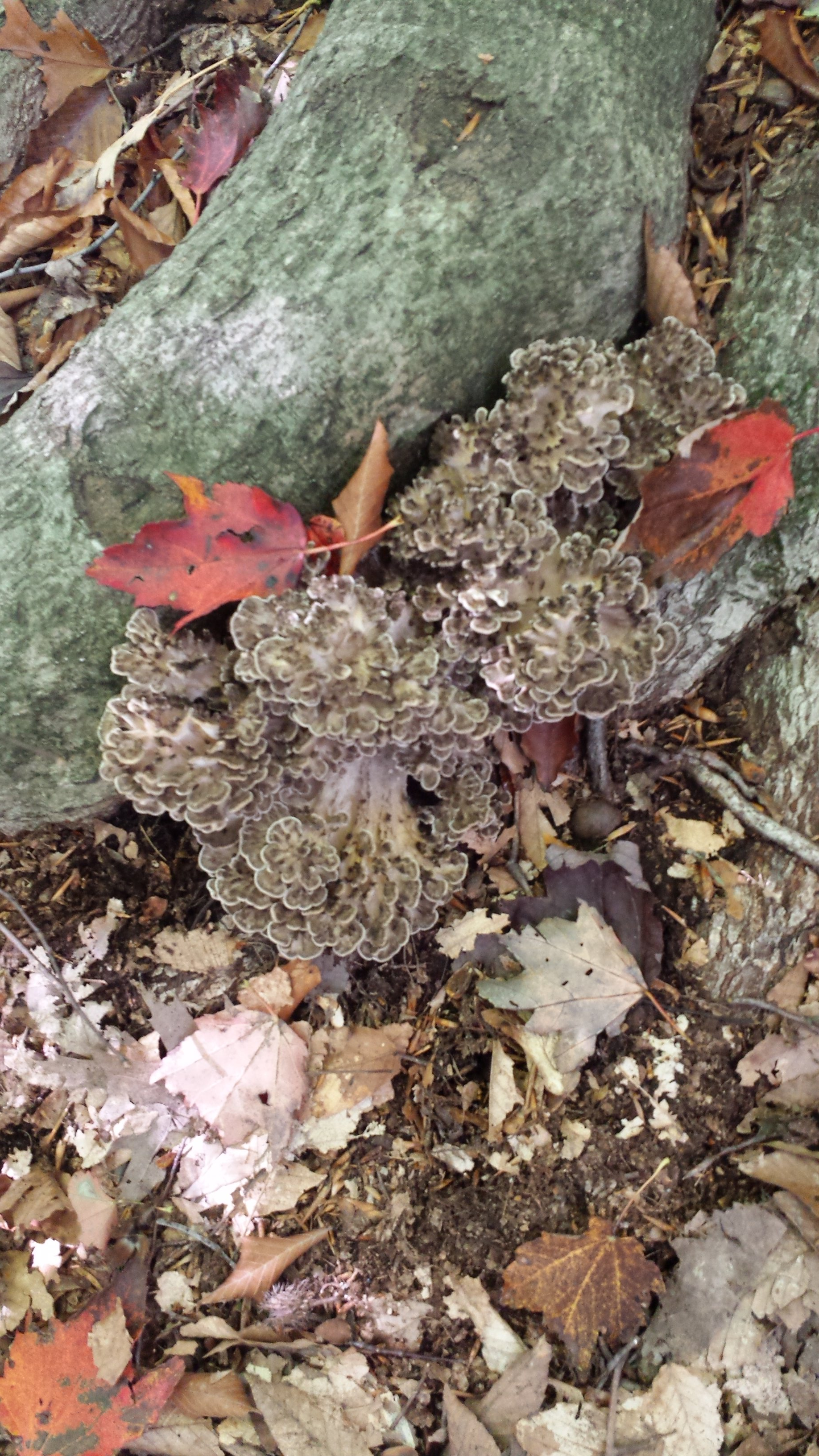 Hen of the woods mushroom (Grifola frondosa) near Cleveland, Ohio.